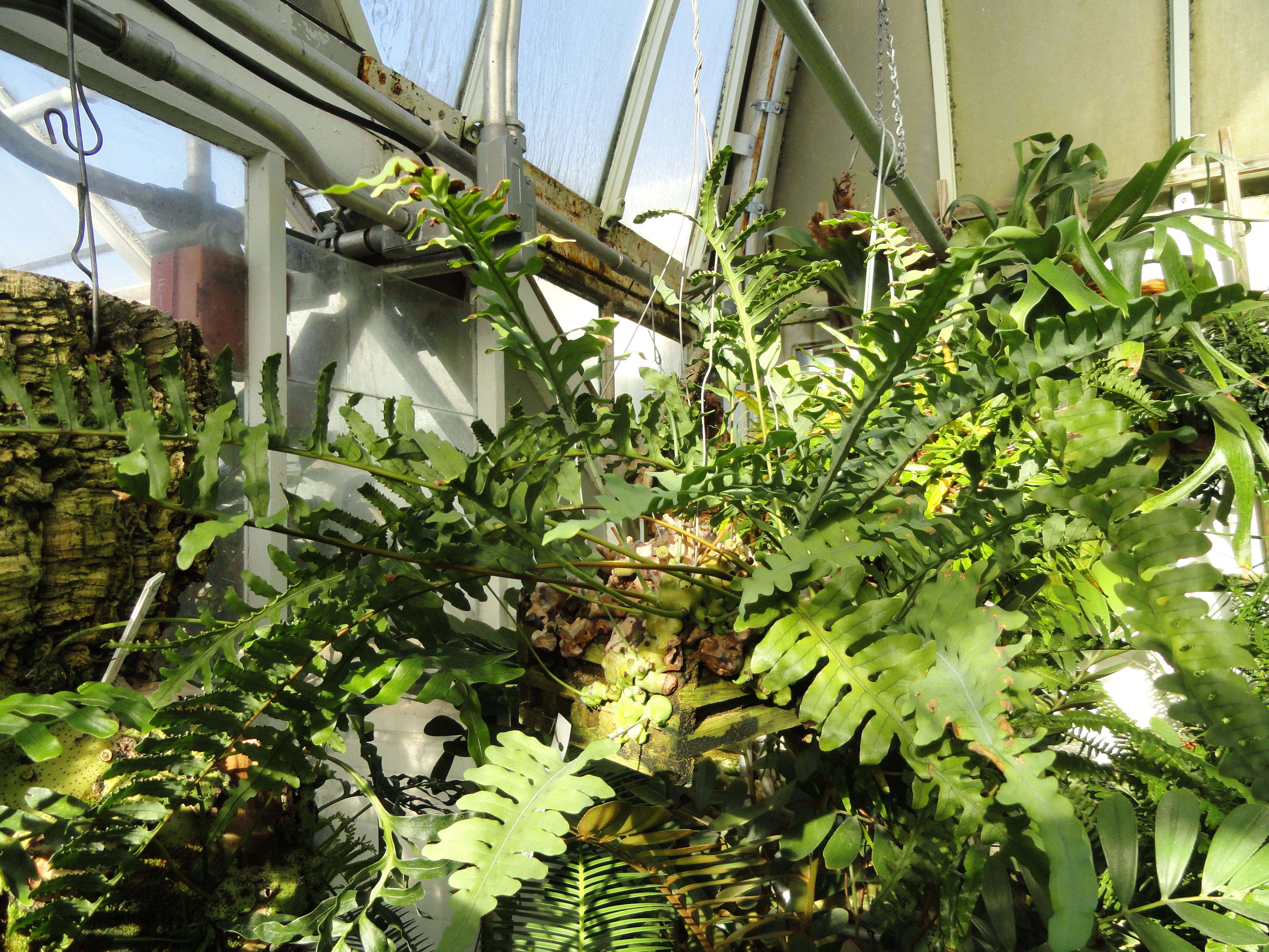 Botanical specimen in the Lyman Plant House, Smith College, Northampton, Massachusetts, USA.